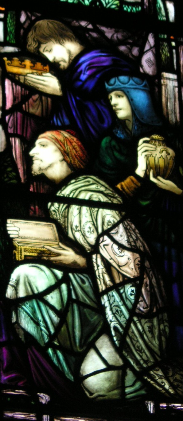 English stained glass, Taplow, Lowndes & Drury, des. Arild Rozenkrantz